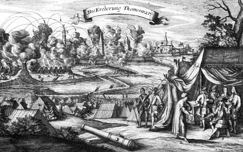 The conquest of Timisoara, 1716